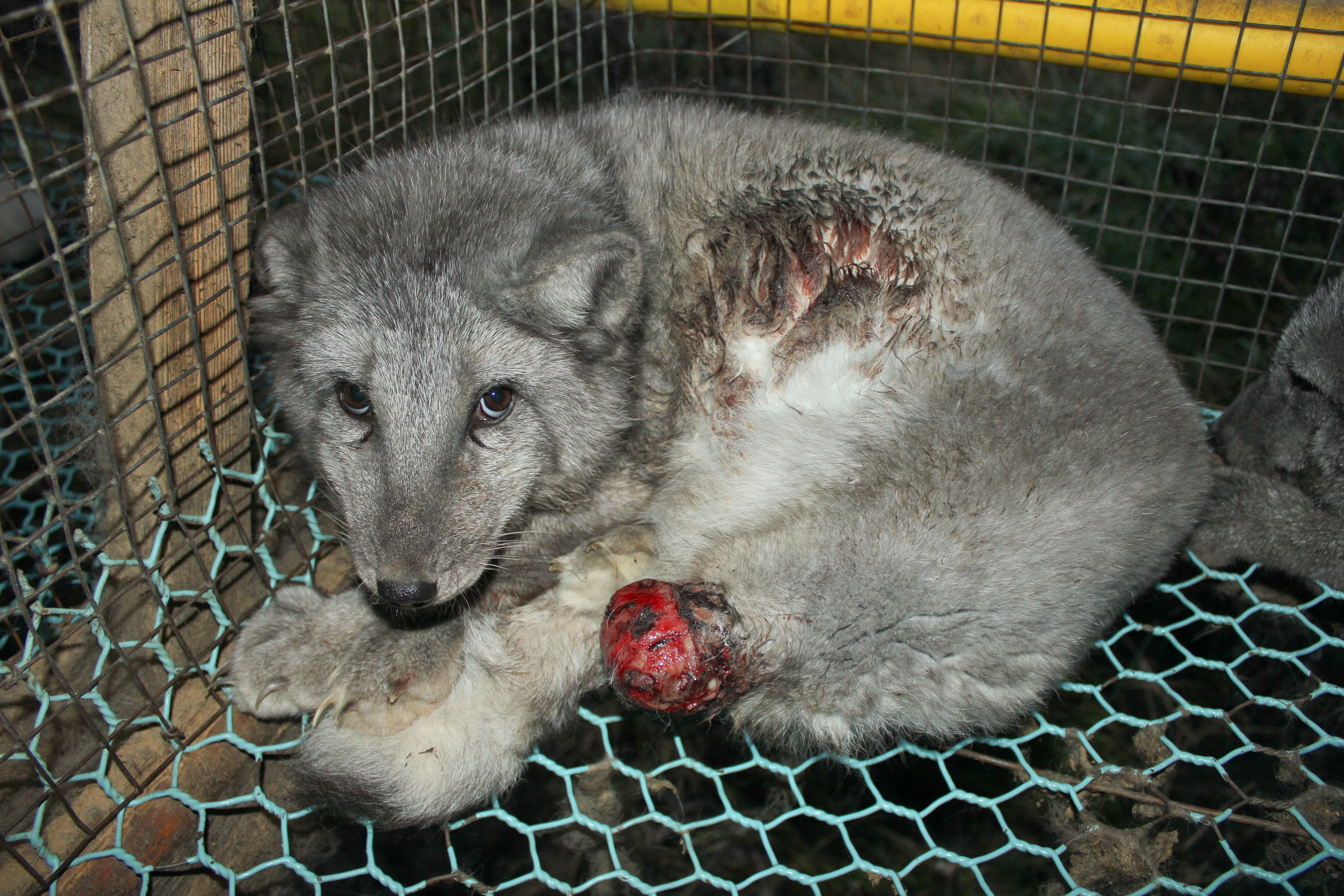 Fur farm in Kauhava, Finland. This photograph was published by the Finnish animal rights organisation Oikeutta eläimille ("Justice for Animals") after an undercover investigation of Finnish fur farms.